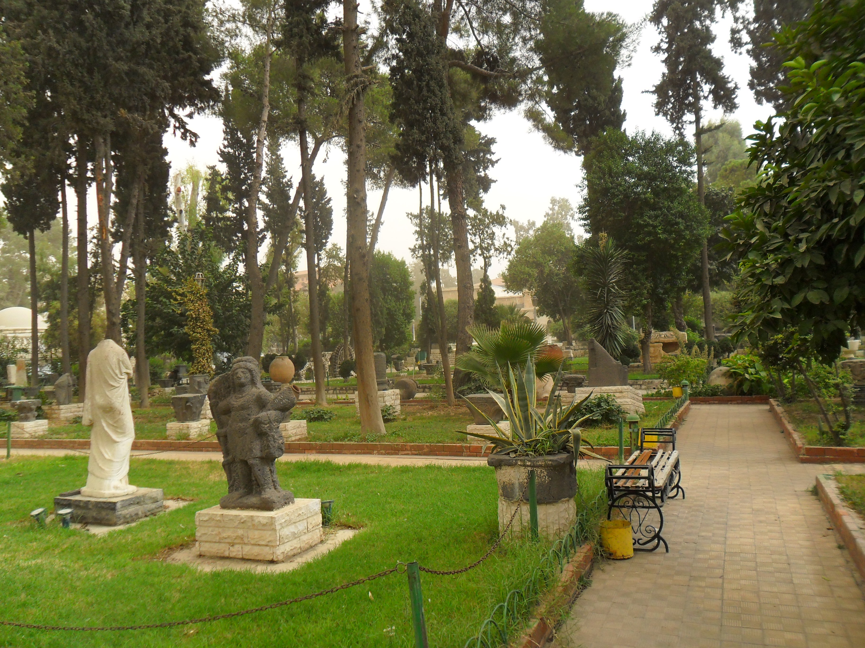 The garden of the Damascus National Museum with old trees and several ancient statues.